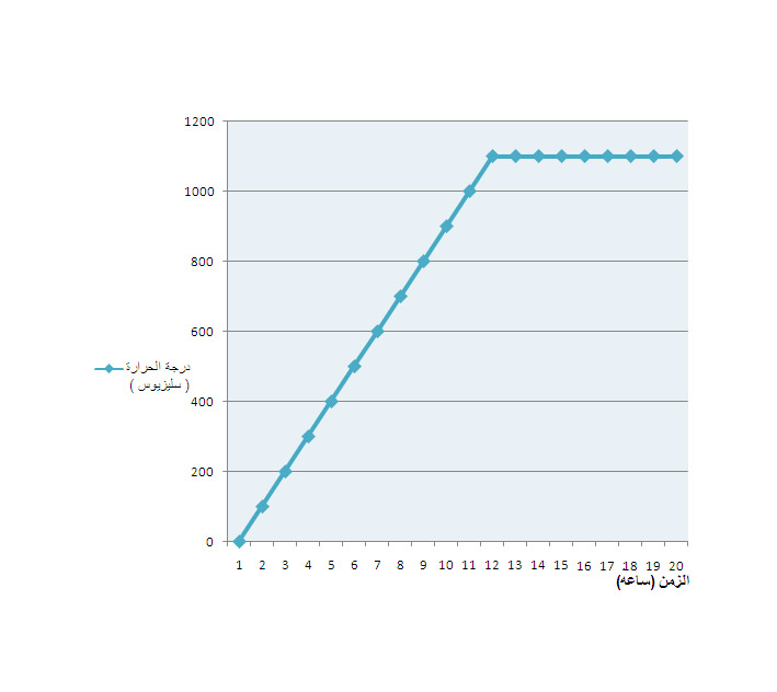 علاقه بين عدد ساعات التسخين و درجات الحرارة